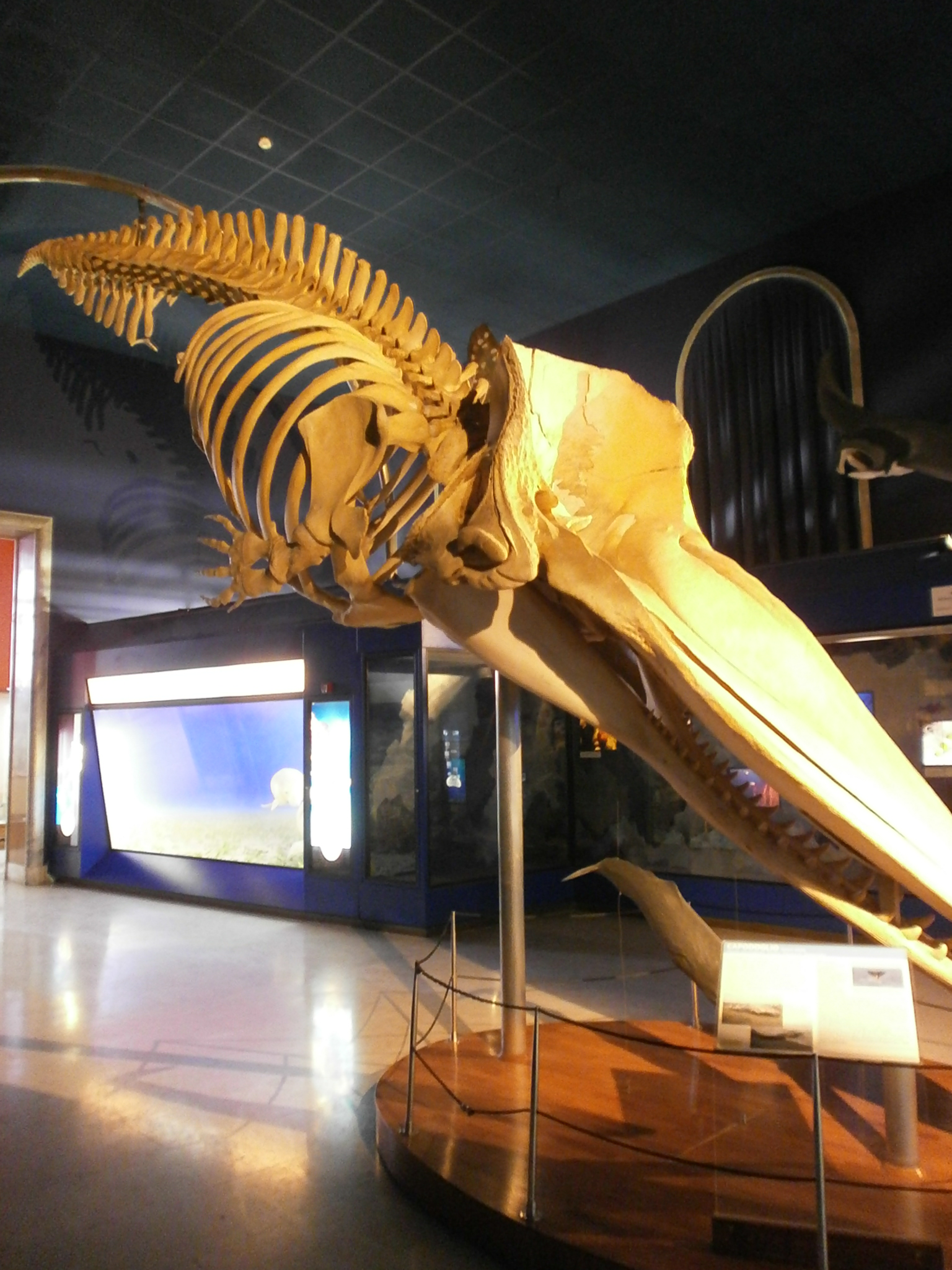 Physeter macrocephalus (sperm whale) - Museum of Natural History of Milan